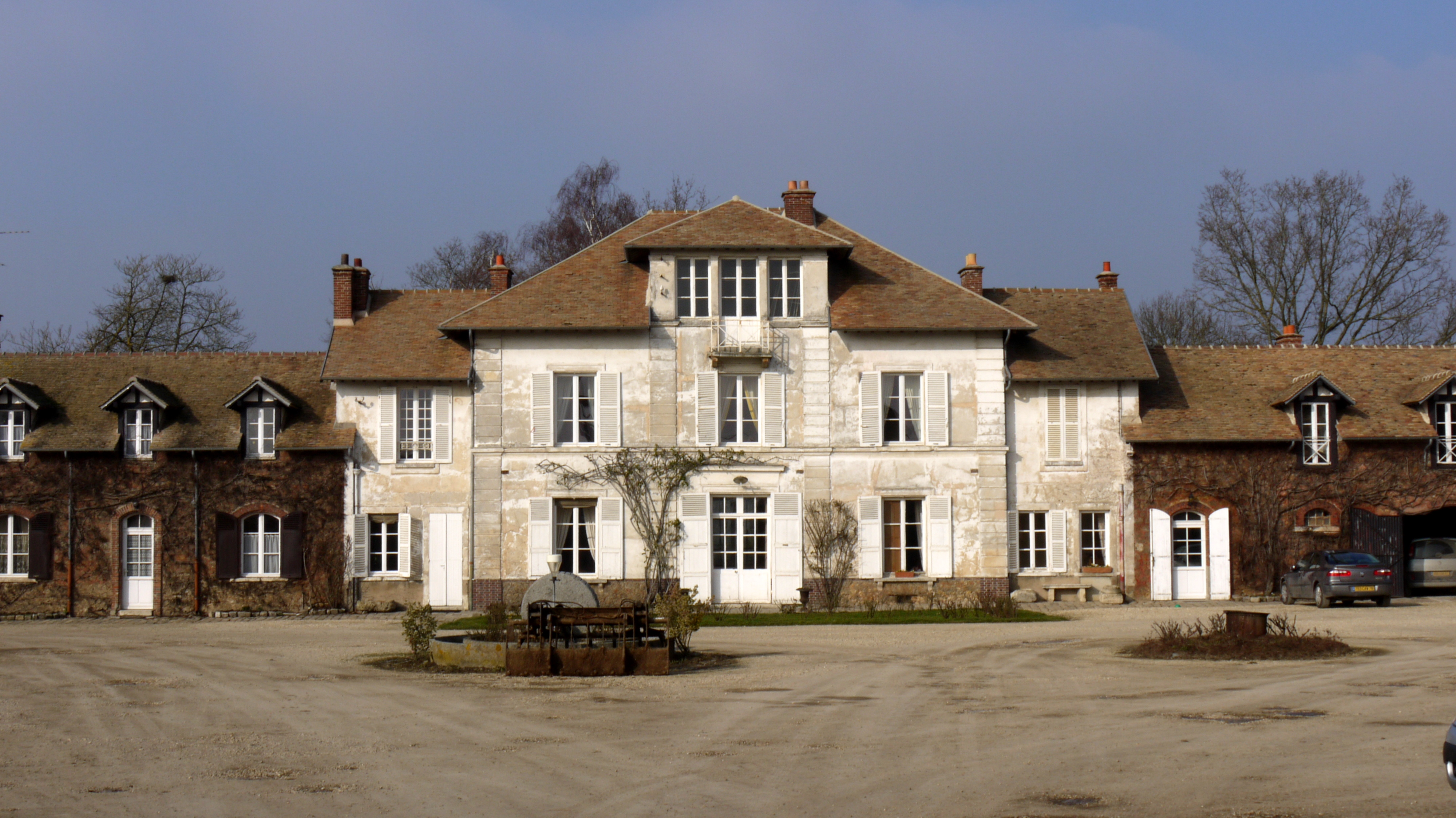 Farm of Grand Viltain on plateau de Saclay, Ile de France